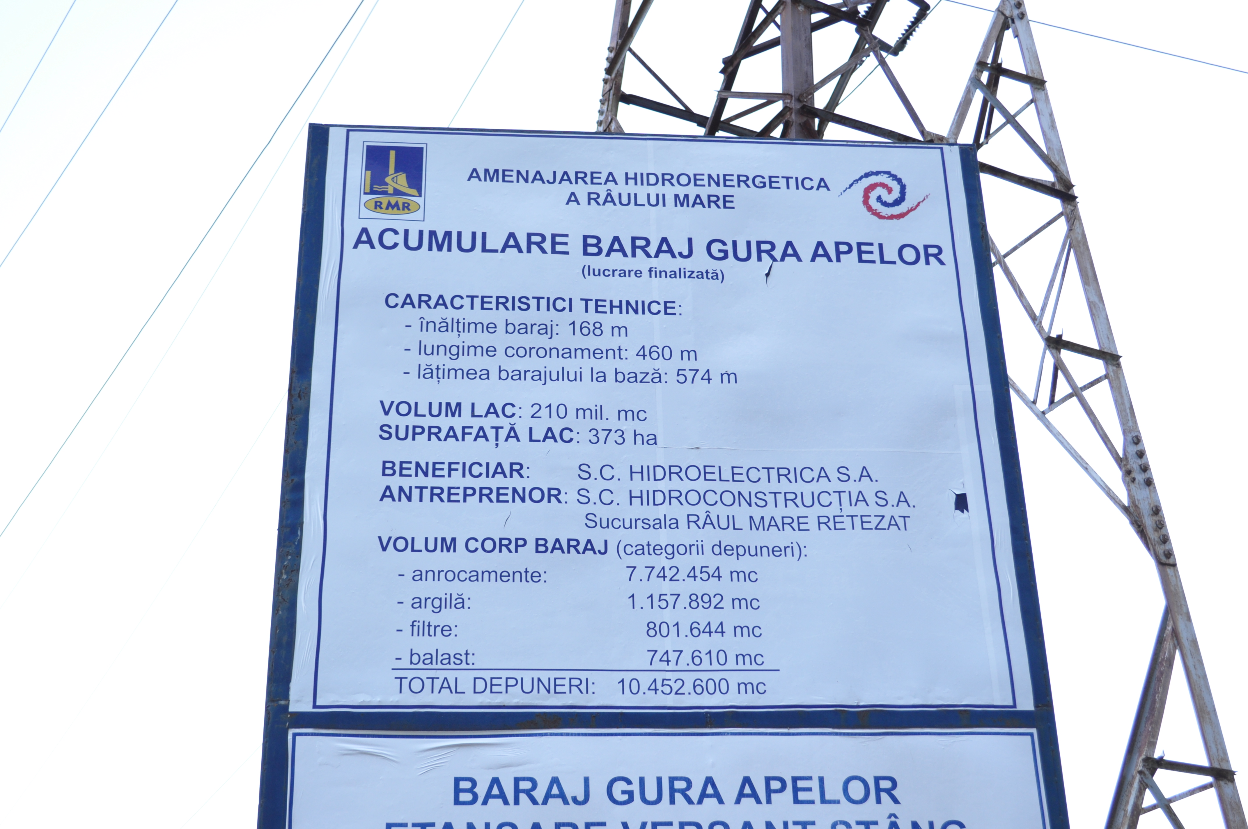 Gura Apelor dam and reservoir, Hunedoara counrty, Romania